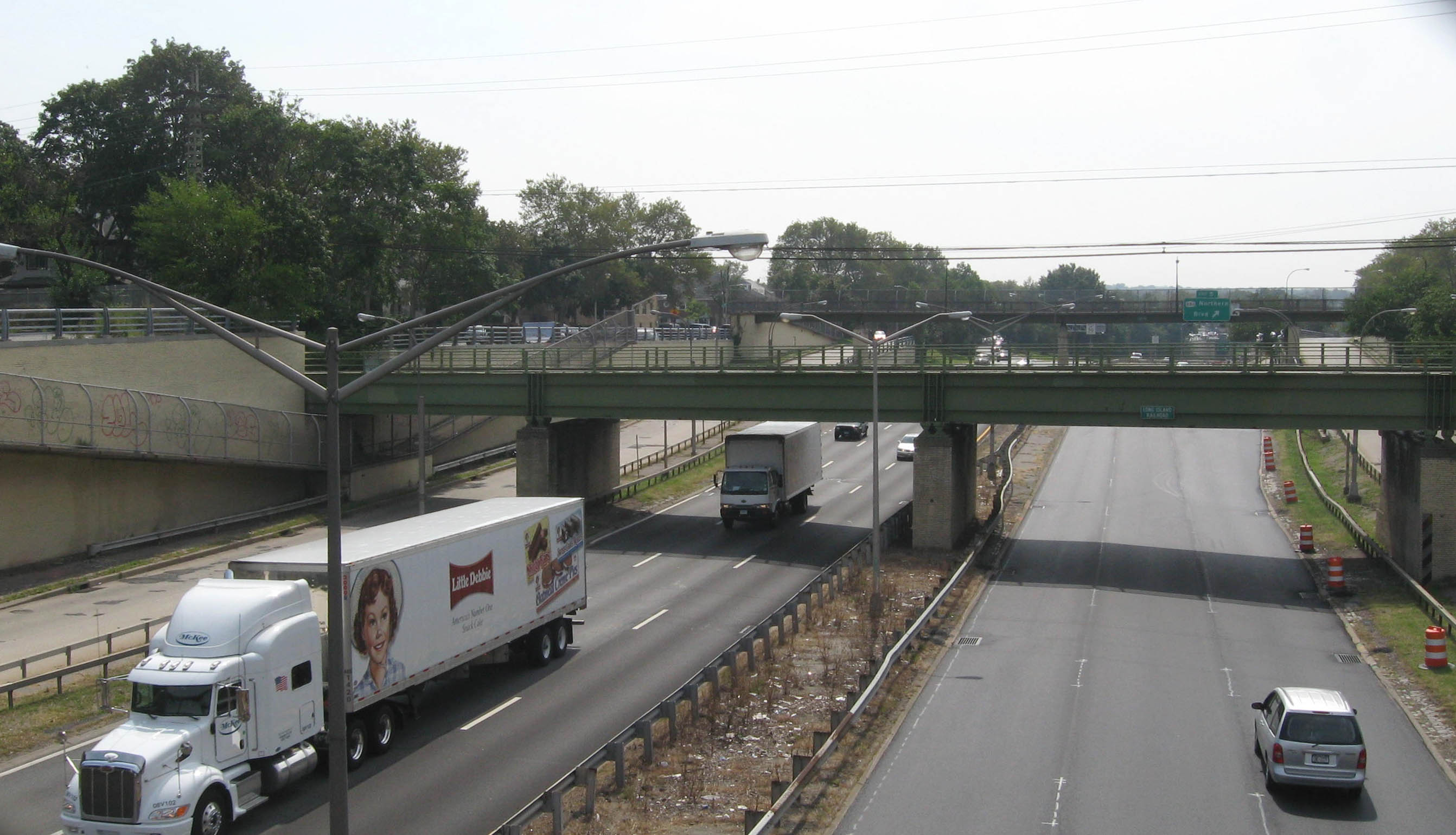 Looking south from 36th Avenue overpass at Clearview Expressway and LIRR Port Washington Branch, on a mostly clear late Sunday morning. Beyond the railroad bridge is a footbridge.